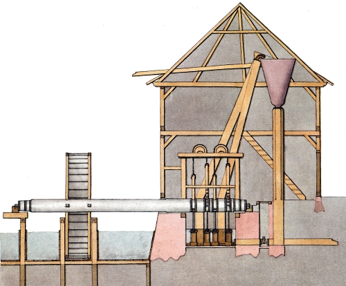 Pumpstation 1761 in Brunswick/Sack